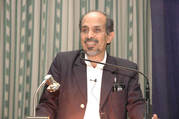 Professor Roddam Narasimha